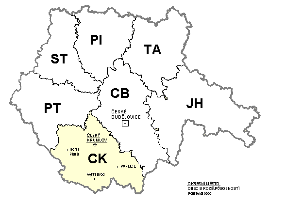 Map of Český Krumlov district in Jihočeský region,Czech republic. Made from NUTS maps on czech wikipedia.